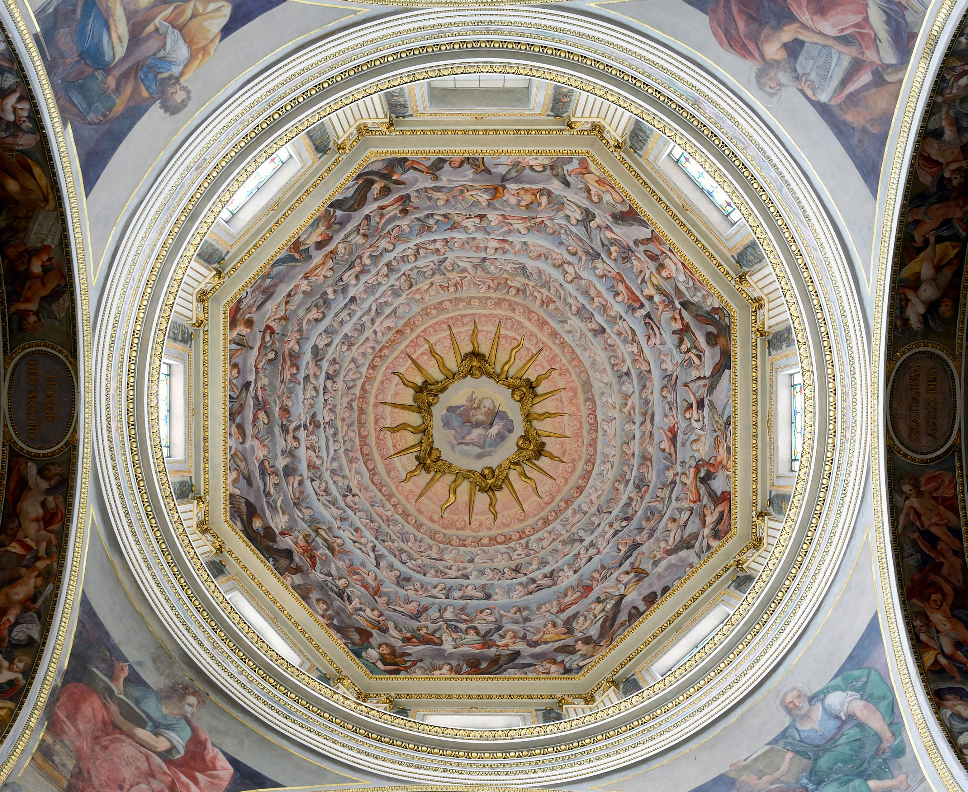 Mantua Cathedral Native nameDuomo di MantovaLocationMantua, Lombardy, ItalyCoordinates45° 09′ 38″ N, 10° 47′ 51″ E Established1761 Authority control : Q650678 VIAF: 136474886 LCCN: nr90016164 GND: 4353684-0 WorldCat institution QS:P195,Q650678